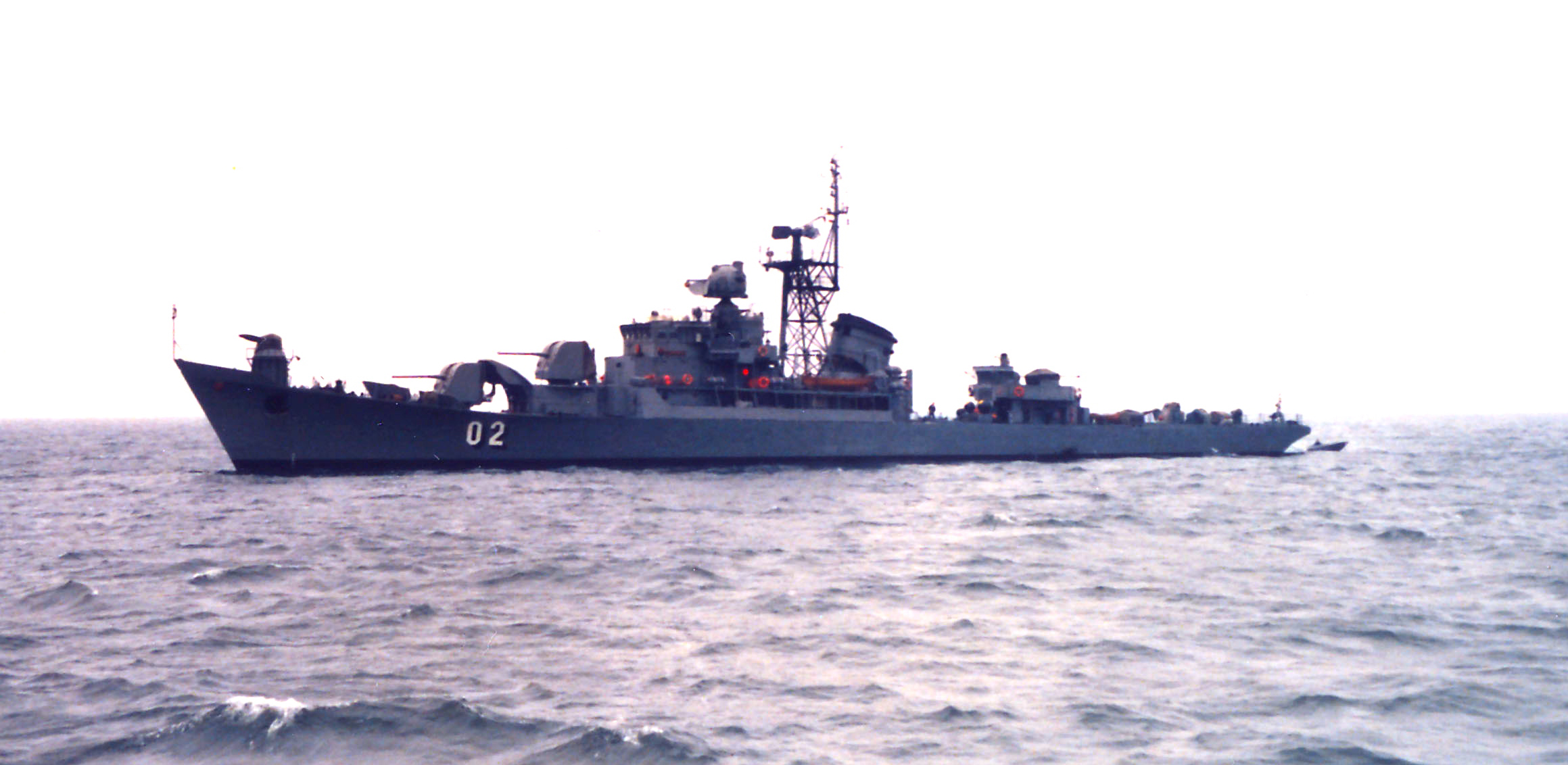 Finnish Navy frigate "Hämeenmaa" photographed in 1983 in the Gulf of Finland. The ship was rebuilt as a minelayer in late 1970s.